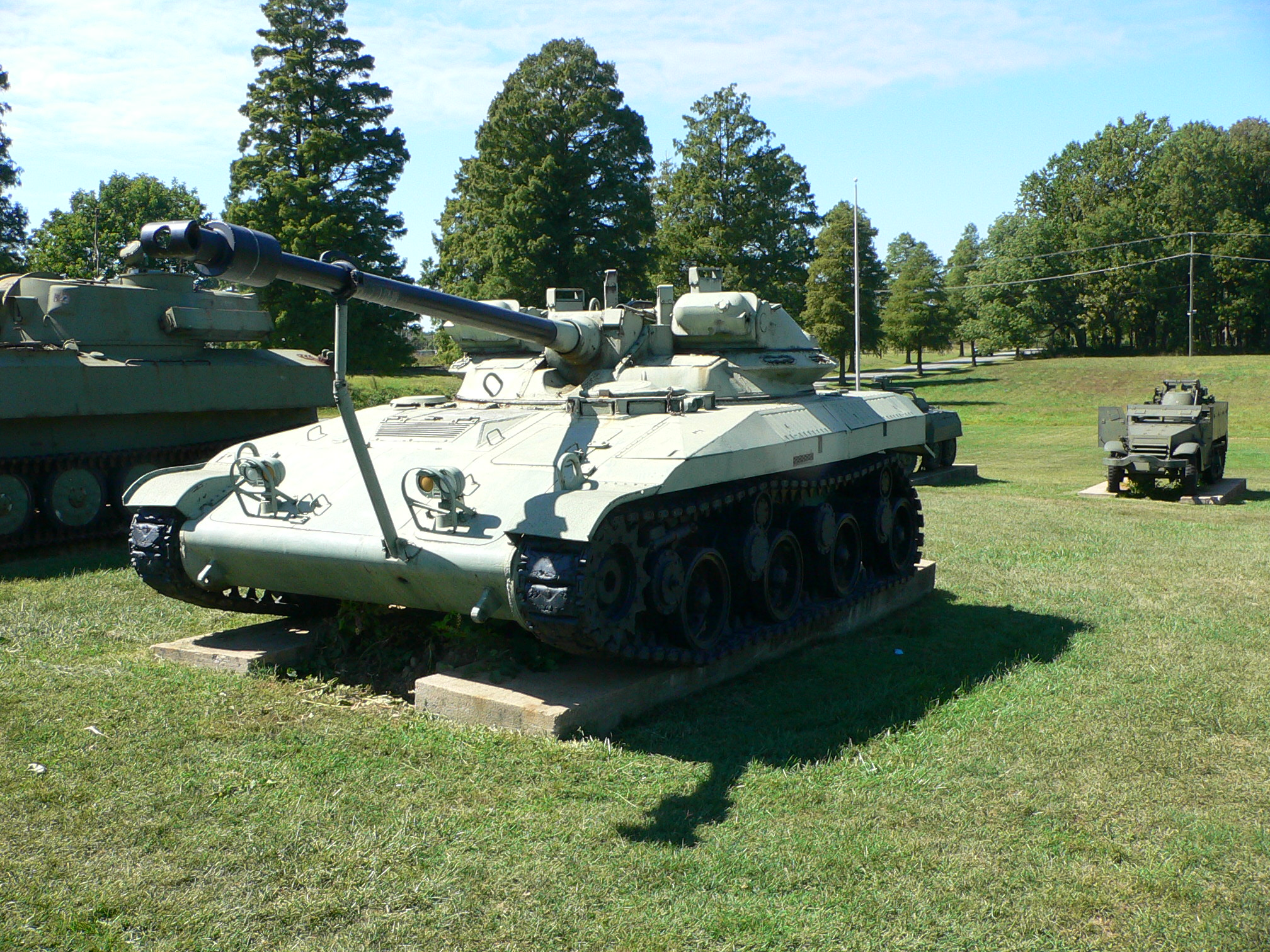 Picture taken by myself, Mark Pellegrini, at the United States Army Ordnance Museum (Aberdeen Proving Ground, MD)